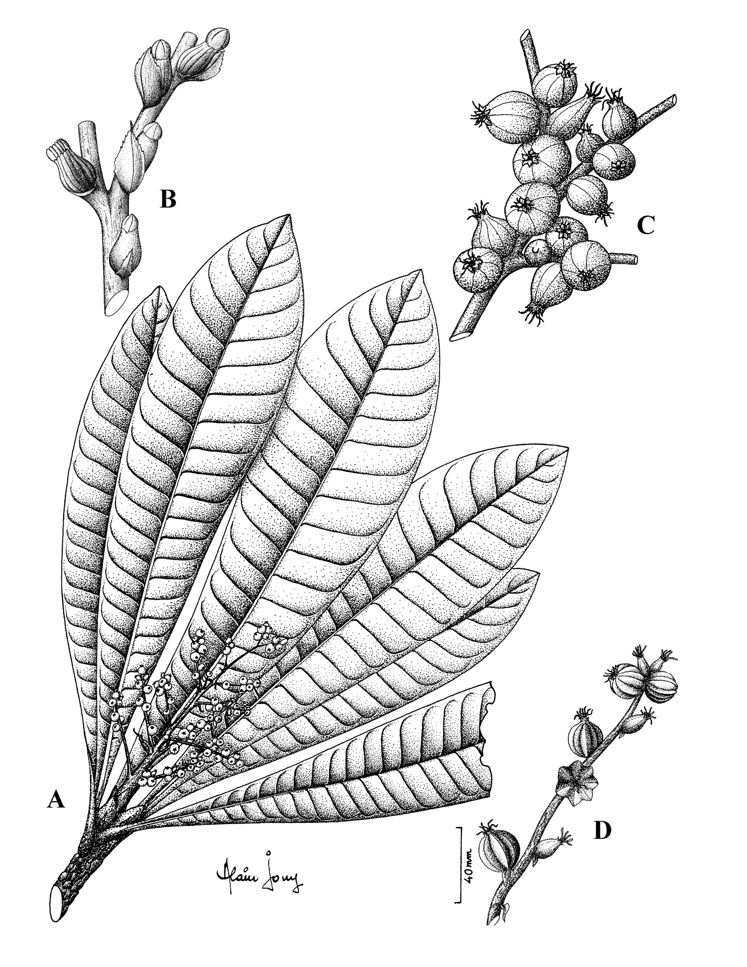 Meryta pastoralis F. Tronchet & Lowry. A branch with leaves and young infructescence B female flowers in bud subtended by bracts C female flowers at receptivity D young fruits. Line drawing by Alain Jouy from herbarium specimens; voucher Perlman 19767 (A, D), Schäfer 5922 (B), Perlman 10206 (C).